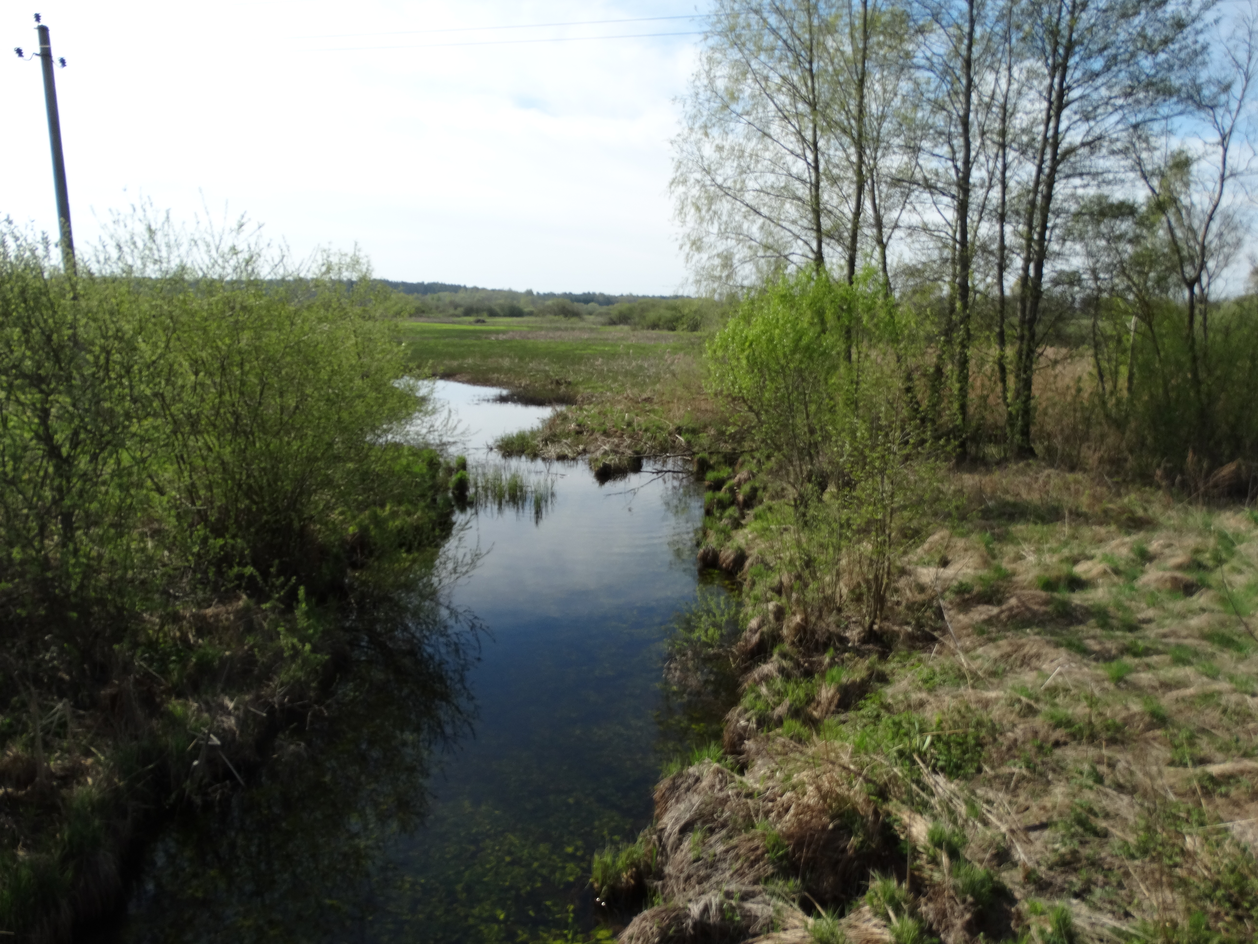 Daugyvenė River by Prastavoniai, Radviliškis District, Lithuaniaų dvaras